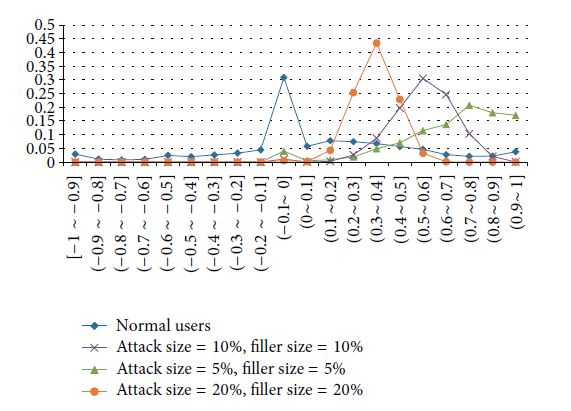 Cosine distance distribution